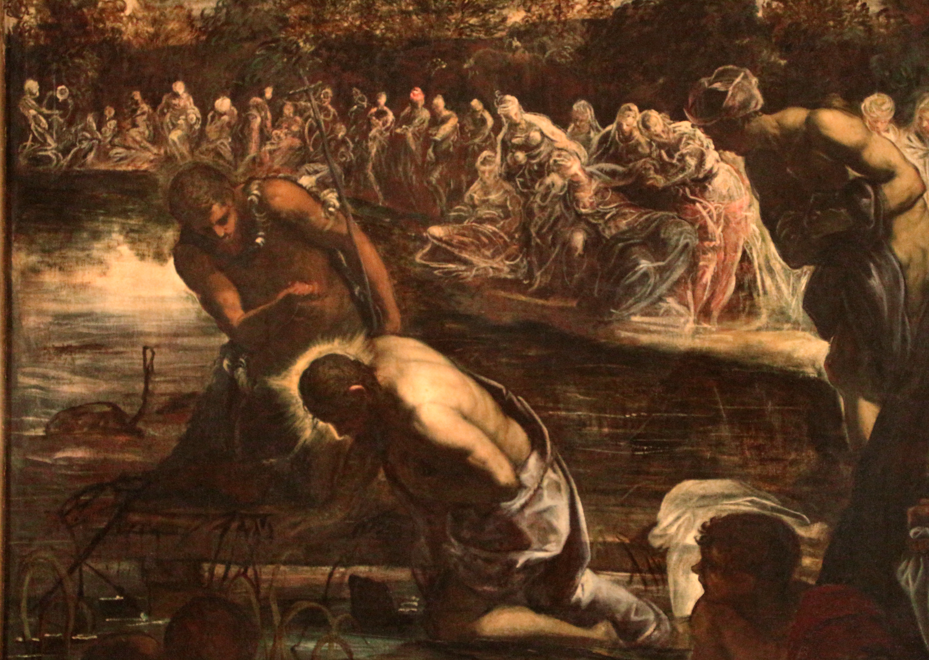 Paintings by Tintoretto in Scuola Grande di San Rocco - Sala superiore